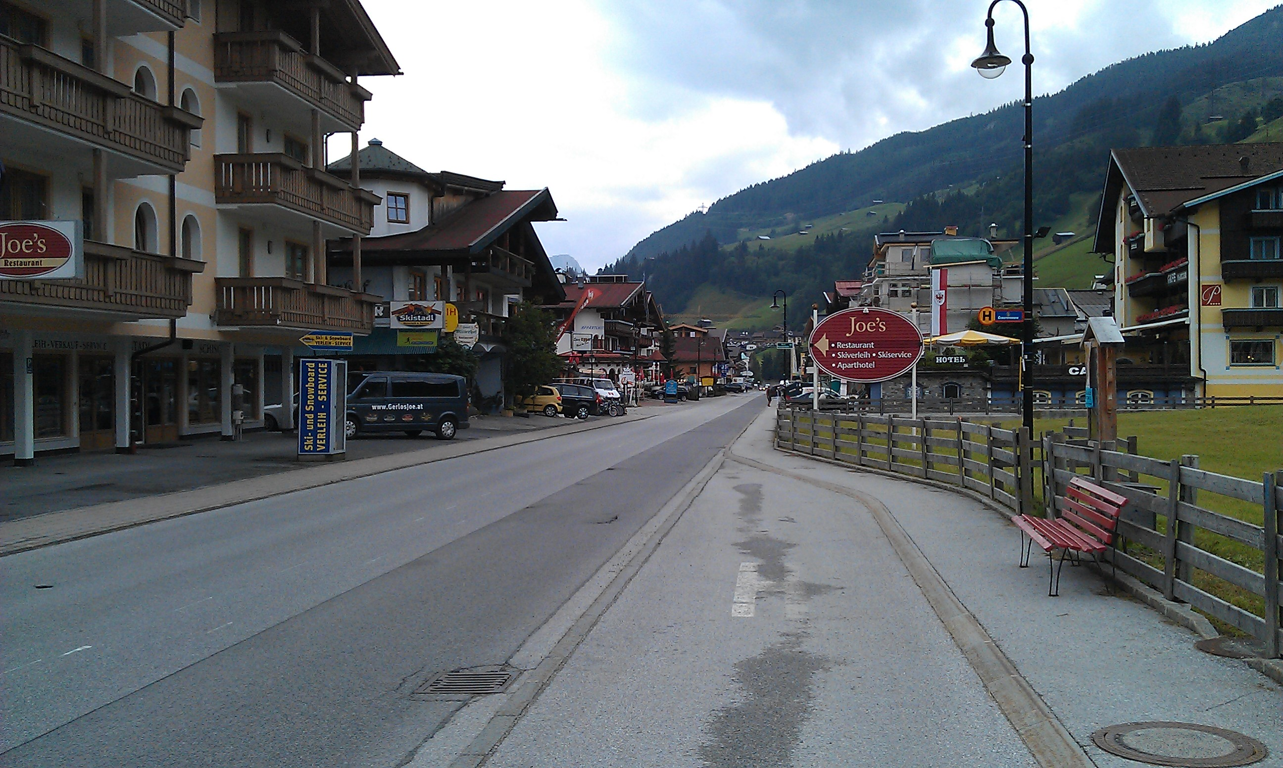 Mainstreet in Gerlos, Austria